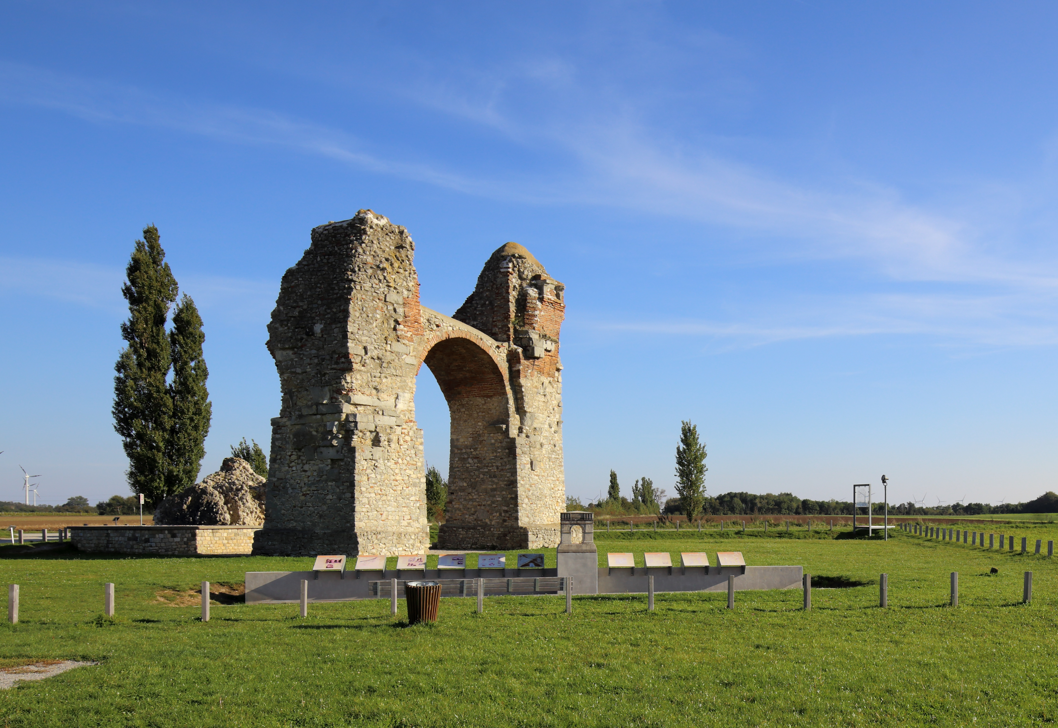 The ruin of the Heidentor (Pagan gate) in Carnuntum.